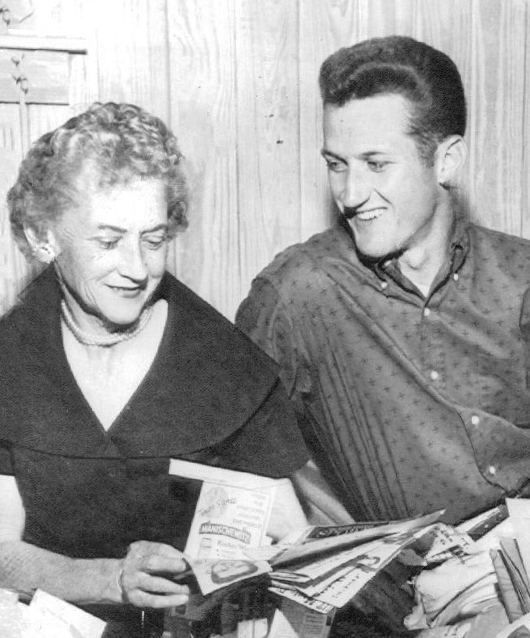 1960 Texas Longhorns Basketball Point Guard Jay Arnette to Olympics Press Photo